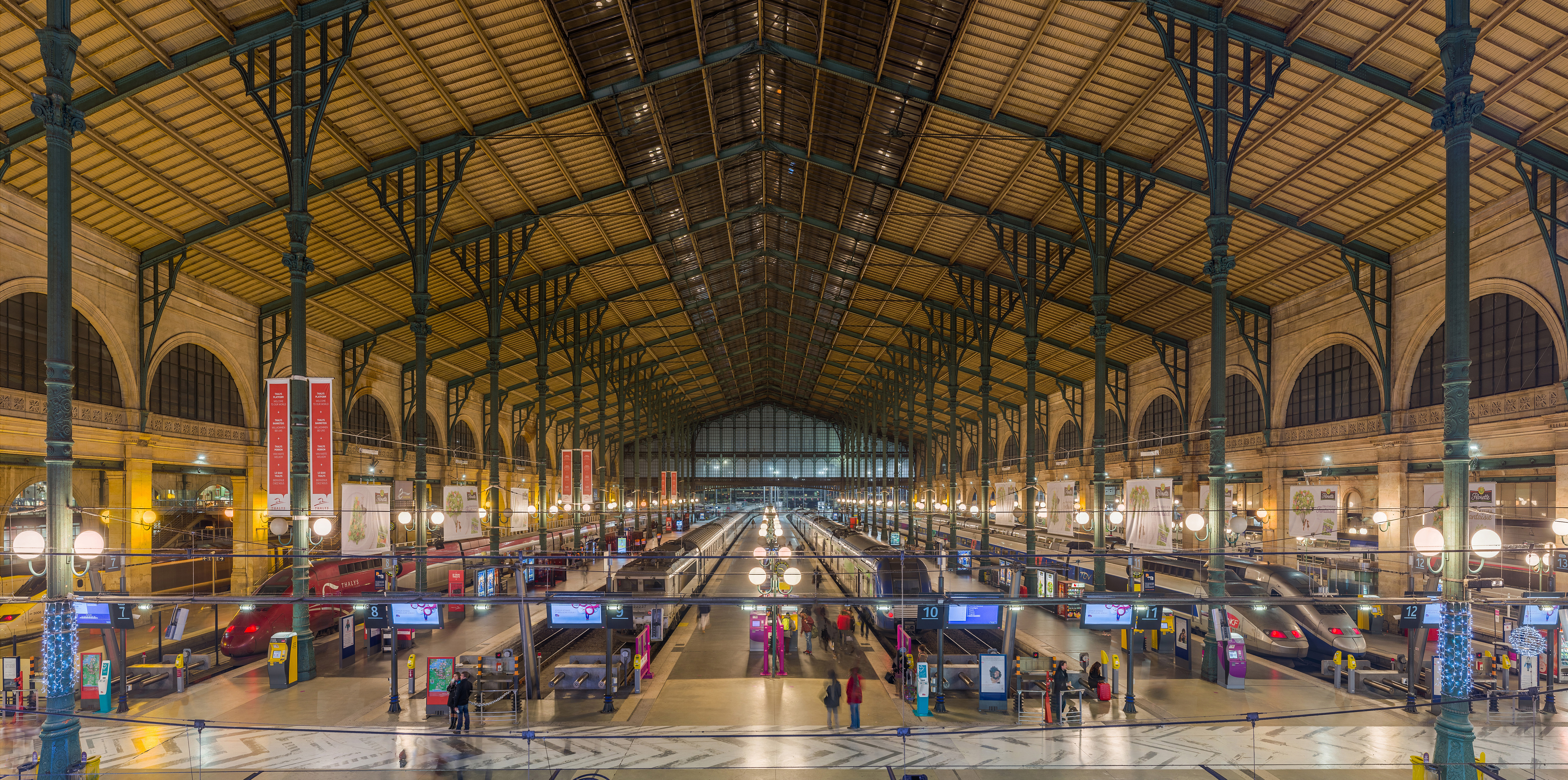 The interior of Gare du Nord taken from the balcony level in Paris, France.